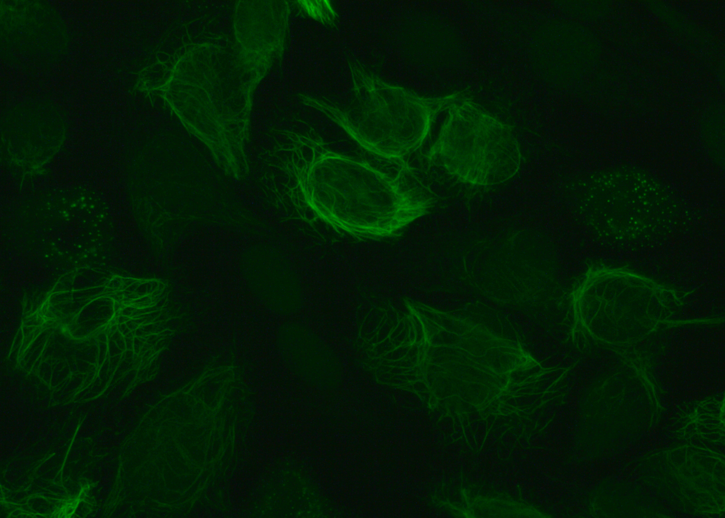 Immunofluorescence pattern of vimentin antibodies.Produced using serum from a patient on HEp-20-10 cells with a FITC conjugate.